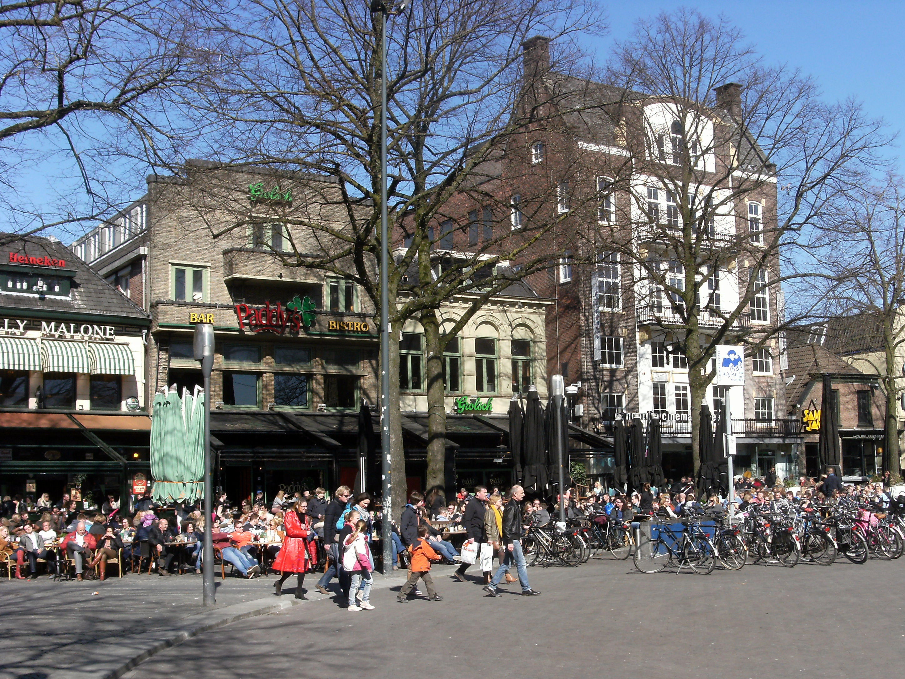 20130407 in Enschede